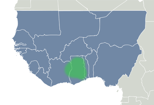 This shows the area of the Kintampo Complex within West Africa